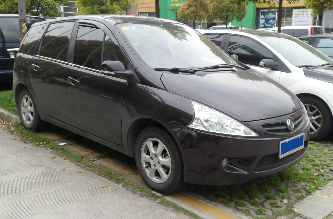 Dongfeng Fengxing Jingyi photographed in Shanghai, China.